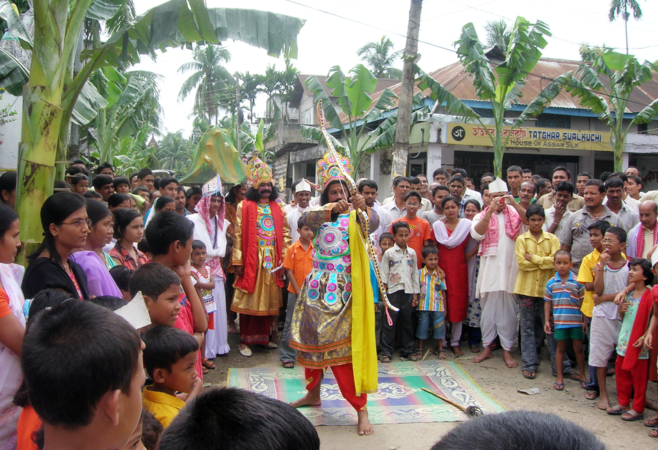 Mahapurusha Srimanta Sankardeva(1449-1568) created the form of Bhowna(Performs both in street and Stage) to convey religious messages to villagers through entertainment.It is a traditional form of entertainment, which always contains religious messages. অসমীয়া: বাটৰ ভাওঁনা